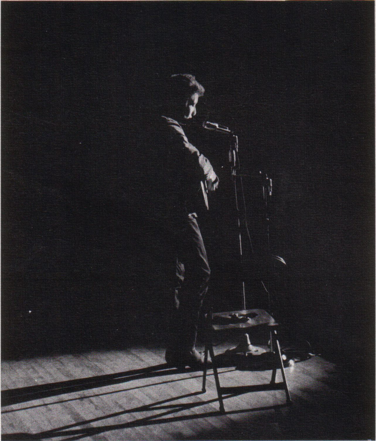 Bob Dylan performing at St. Lawrence University in New York.